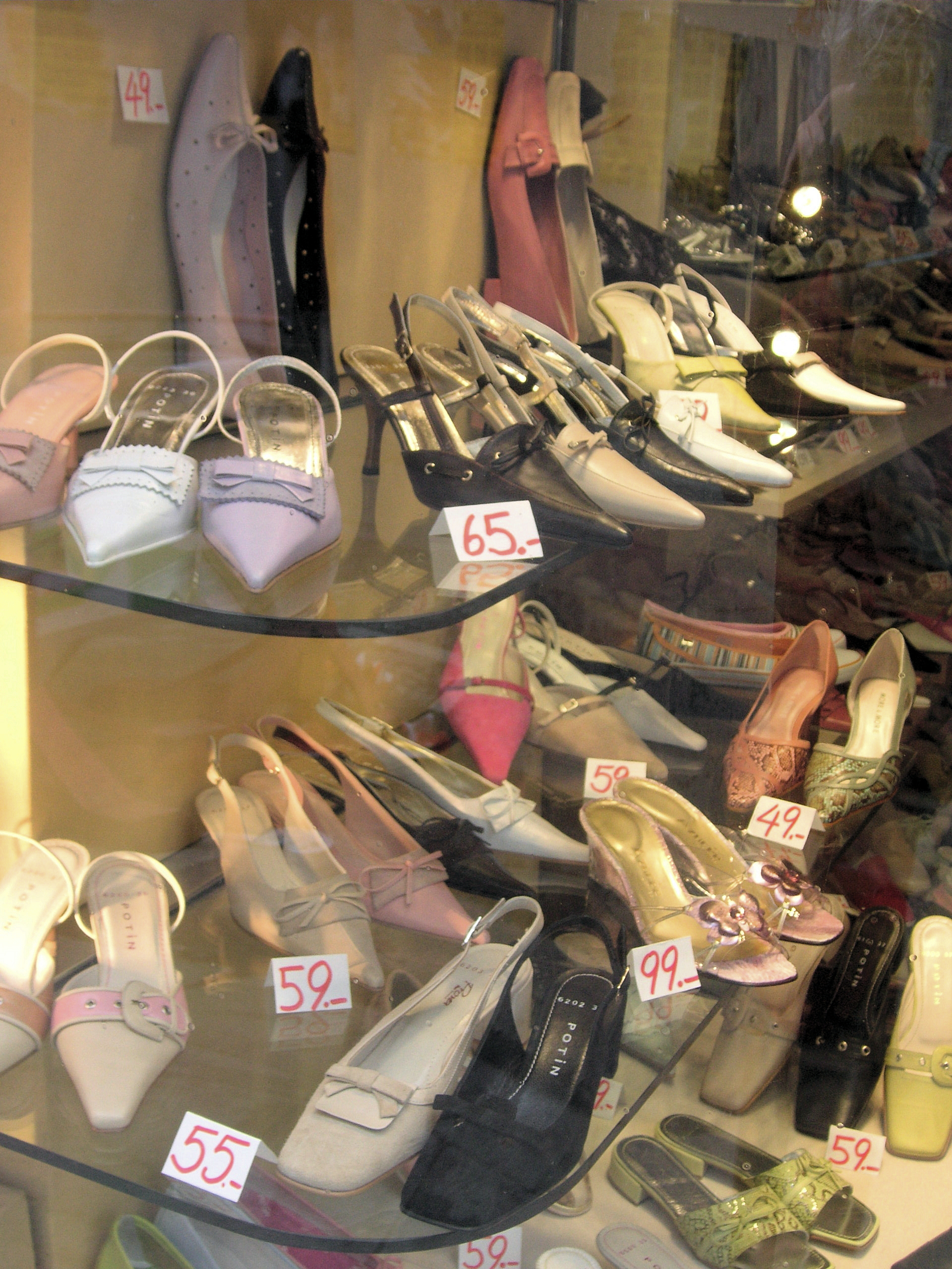 Shoes in a shop